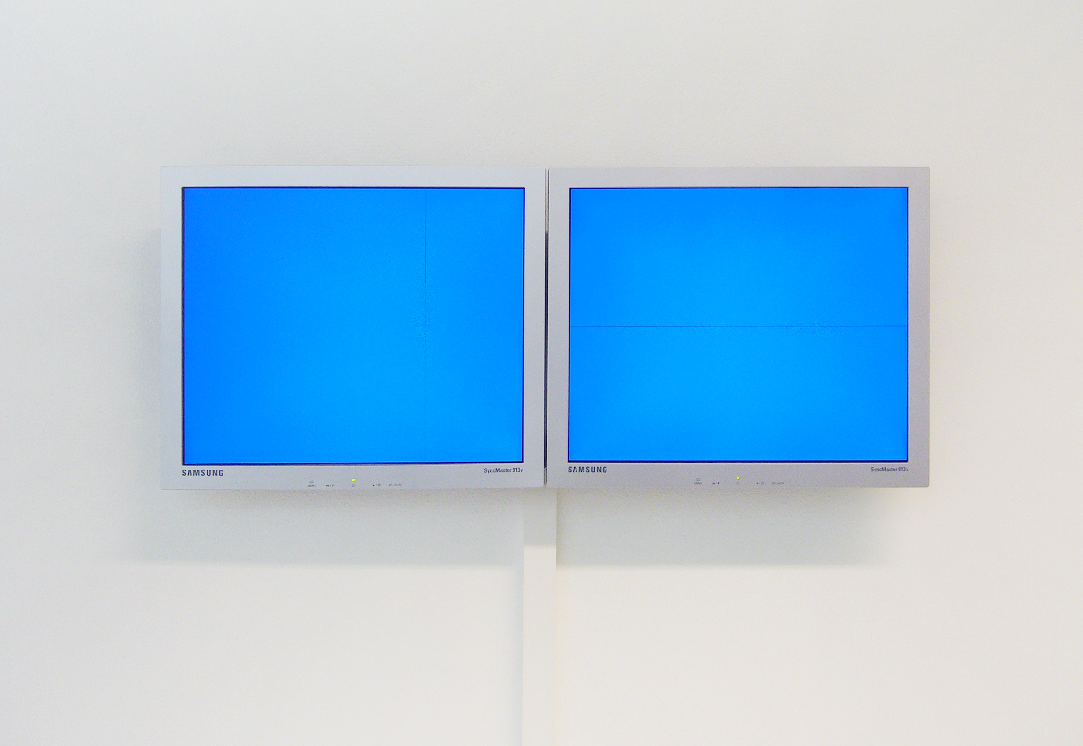 Marko Vuokola, Blue Movie II, 2007. Two channel computer animation. Dimensions variable. No sound. The work consists of an almost unnoticeable vertical line moving across the screen to the left screen, and a horisontal line moving across the screen to the right. The line is exactly the width or the height respectively of one pixel.